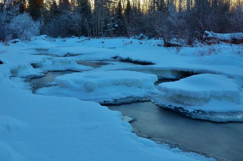 Spirit River at Spirit Falls 2013-01-01. Temperature -16 F.